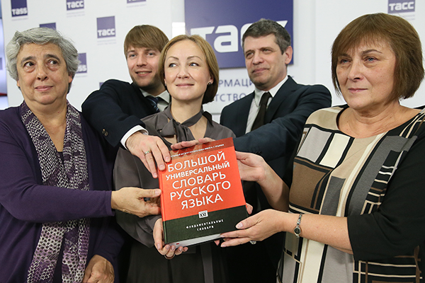 Большой универсальный словарь русского языка, разработанный специалистами Института Пушкина